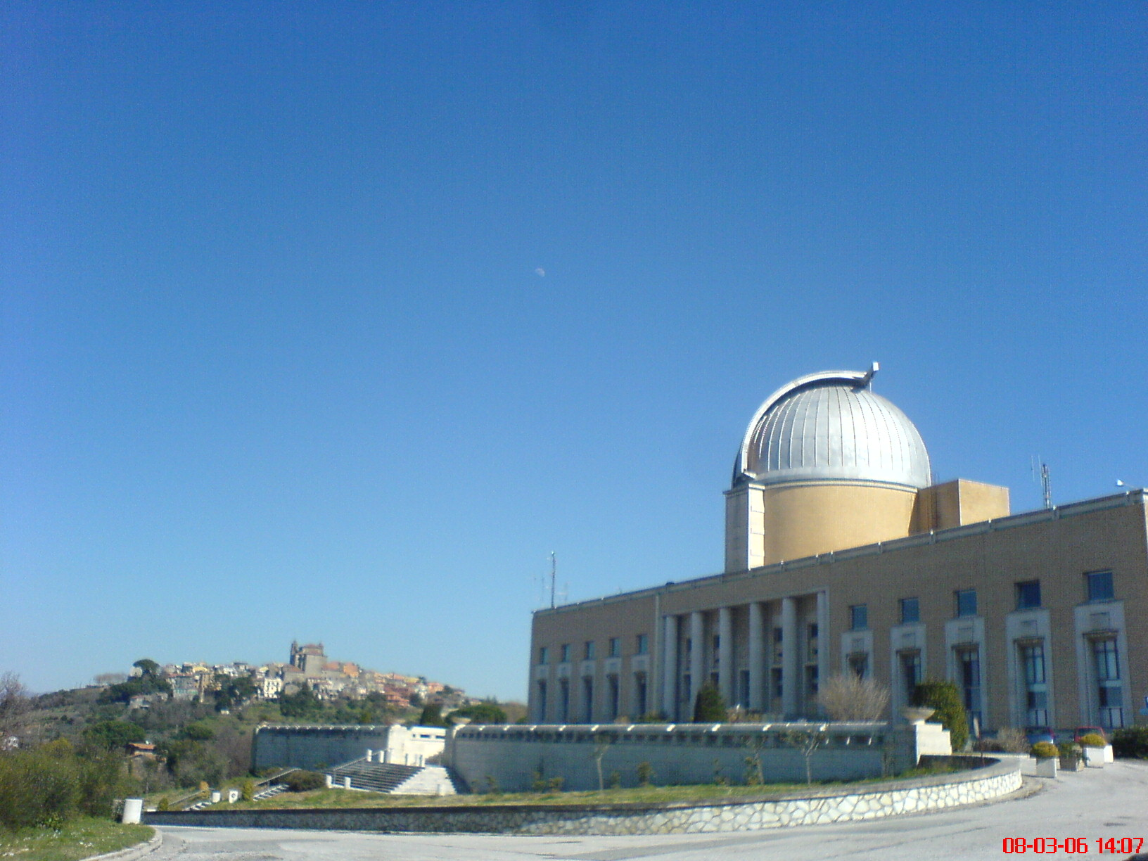 A photo taken with mobile phone showing the Rome Astronomical Observatory (Monte Porzio Catone) in a fine weather afternoon (can you see the moon in the sky...?) (courtesy of S. Gallozzi)